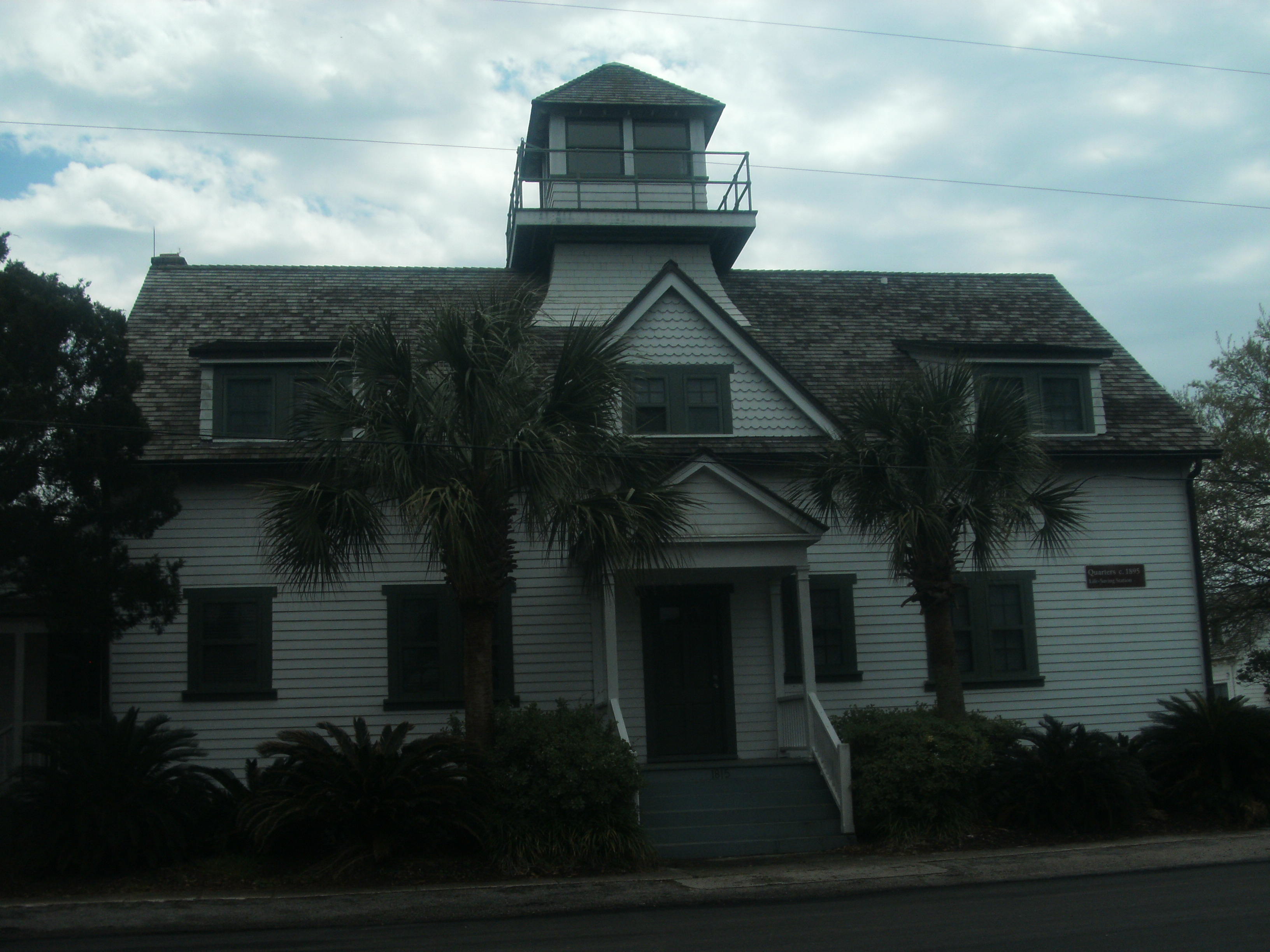 Taken by me in 2015 GEDSC DIGITAL CAMERA